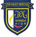 goooooooood